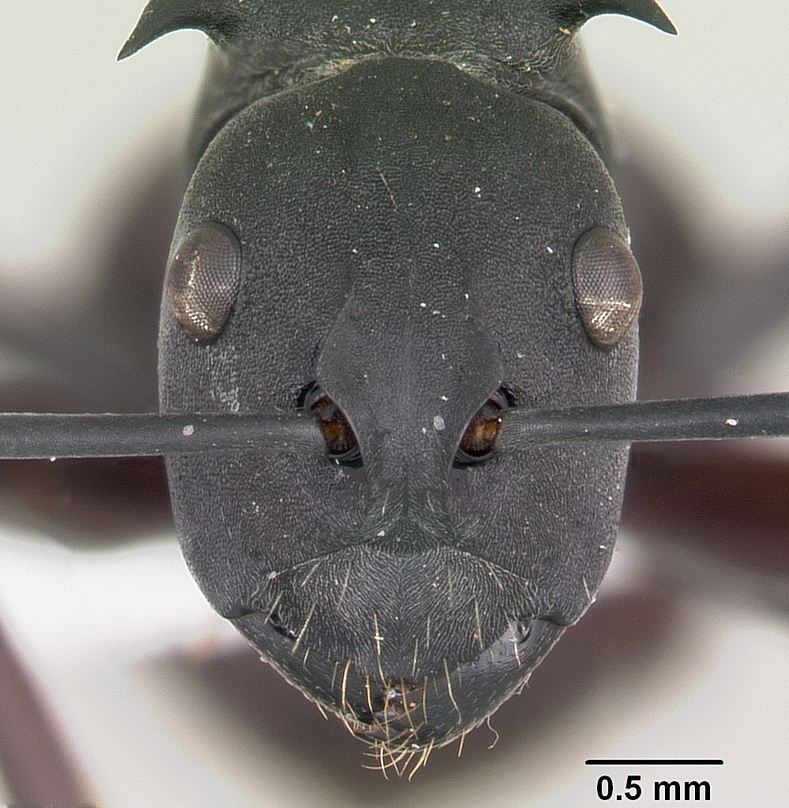 Head view of ant Polyrhachis brendelli specimen casent0103173.